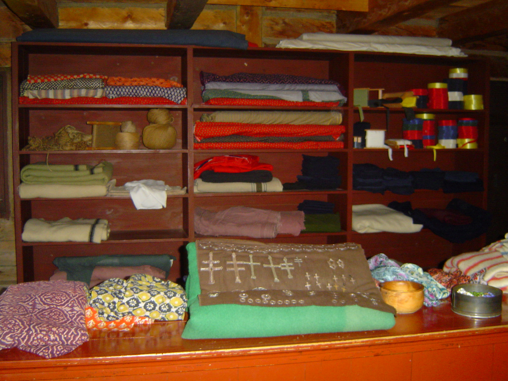 Dry Goods Store materials of cloth and thread